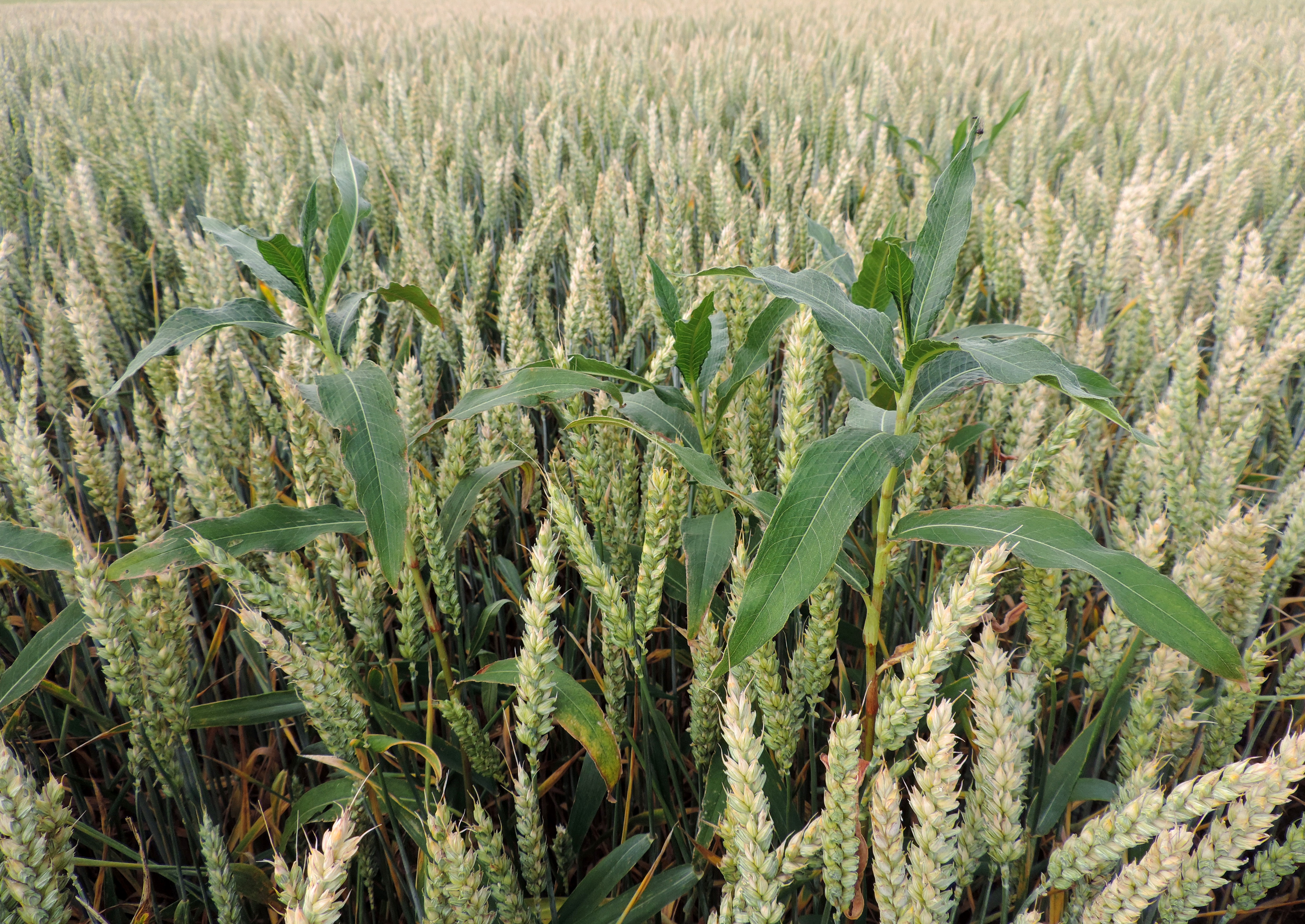 Persicaria amphibia as a weed. Wolin, NW Poland